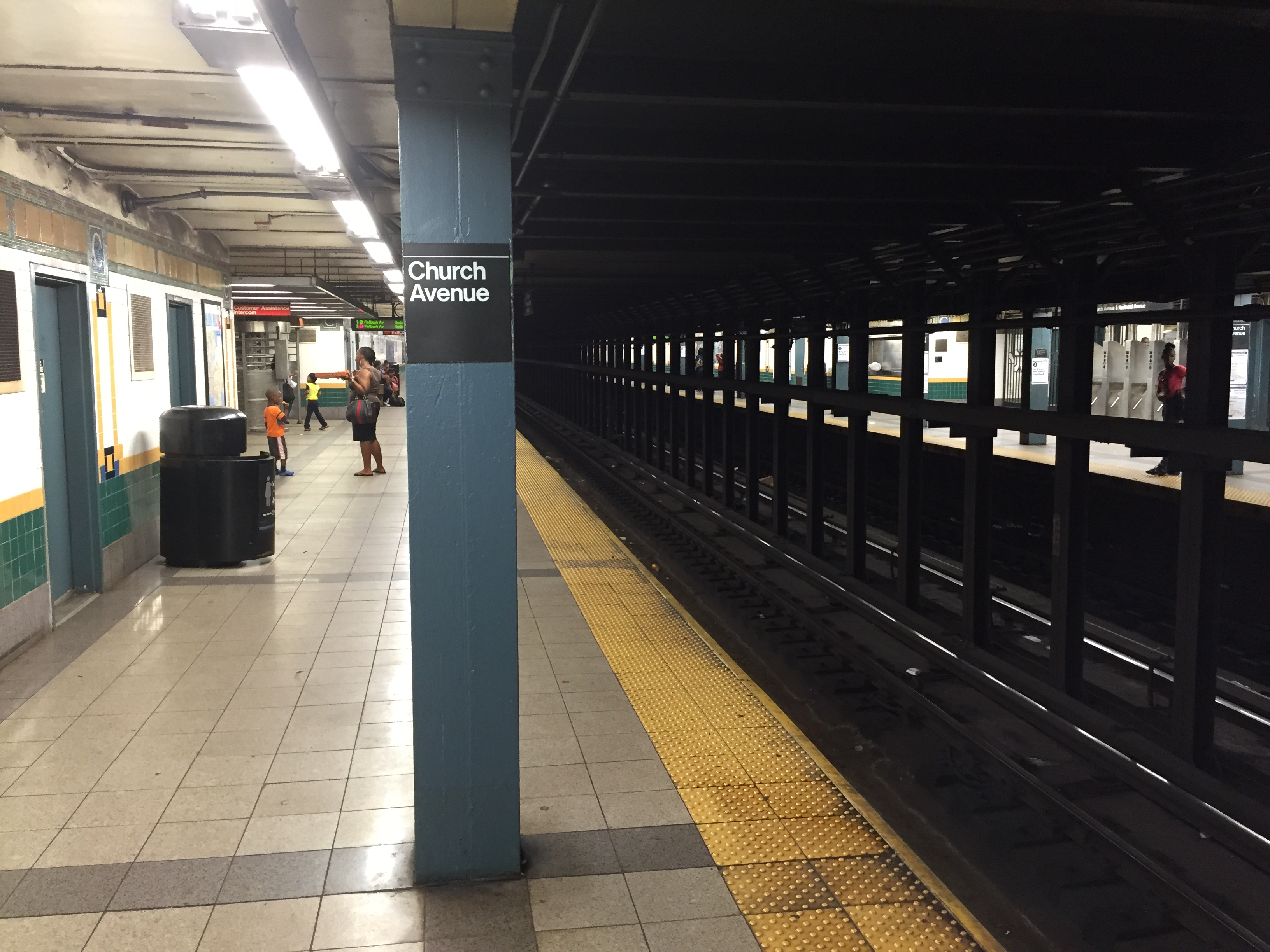 Platform